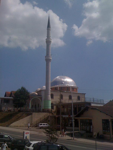 Suva Reka Mosque